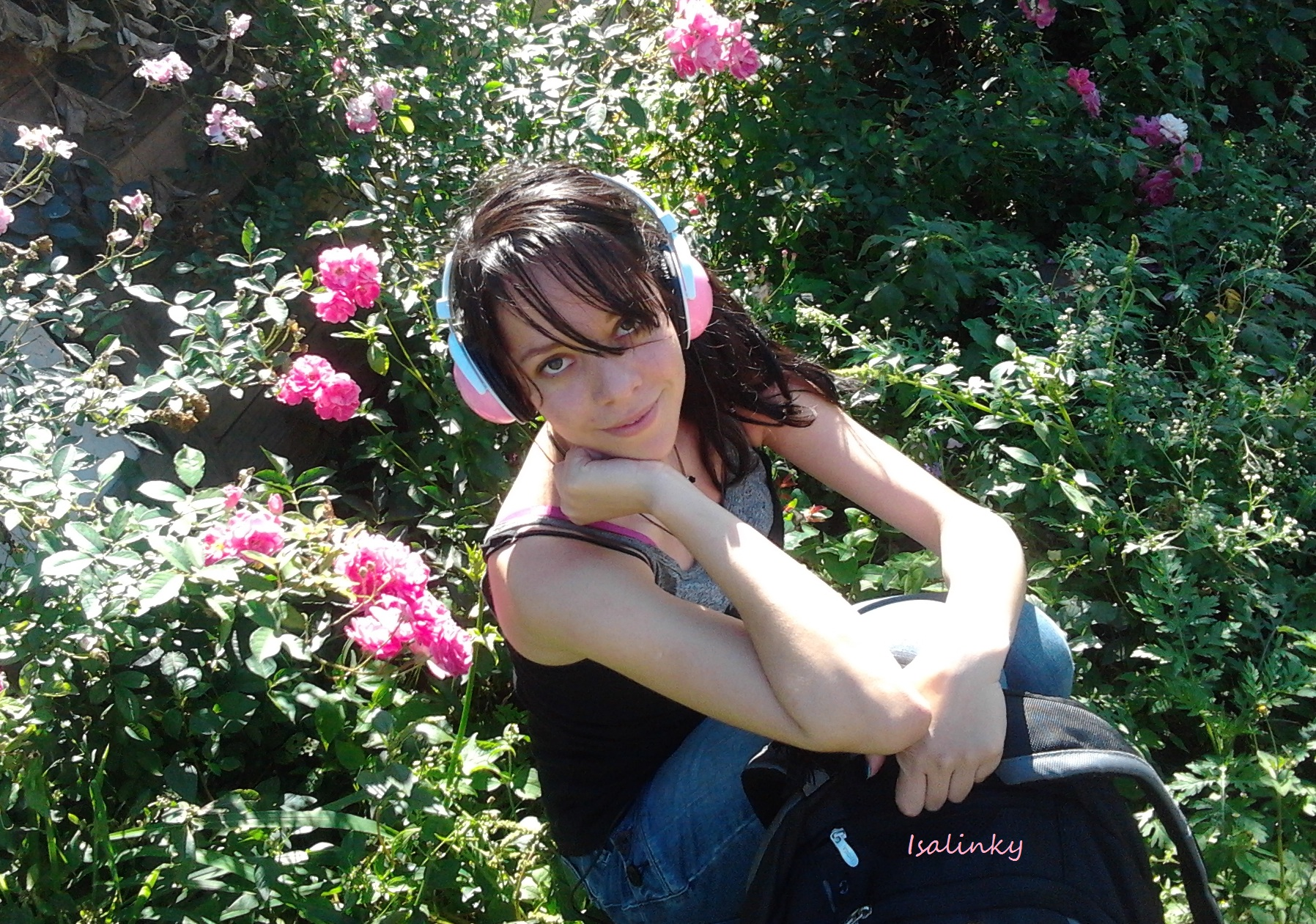 Brazilian girl listening music with pink headphones.